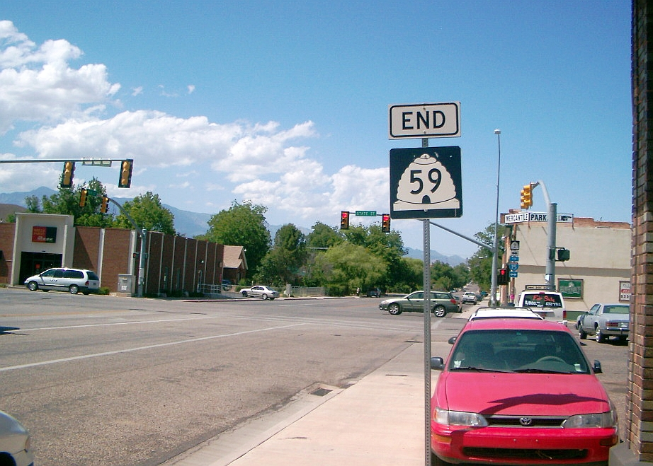 State Street and Main Street, Hurricane, Utah.